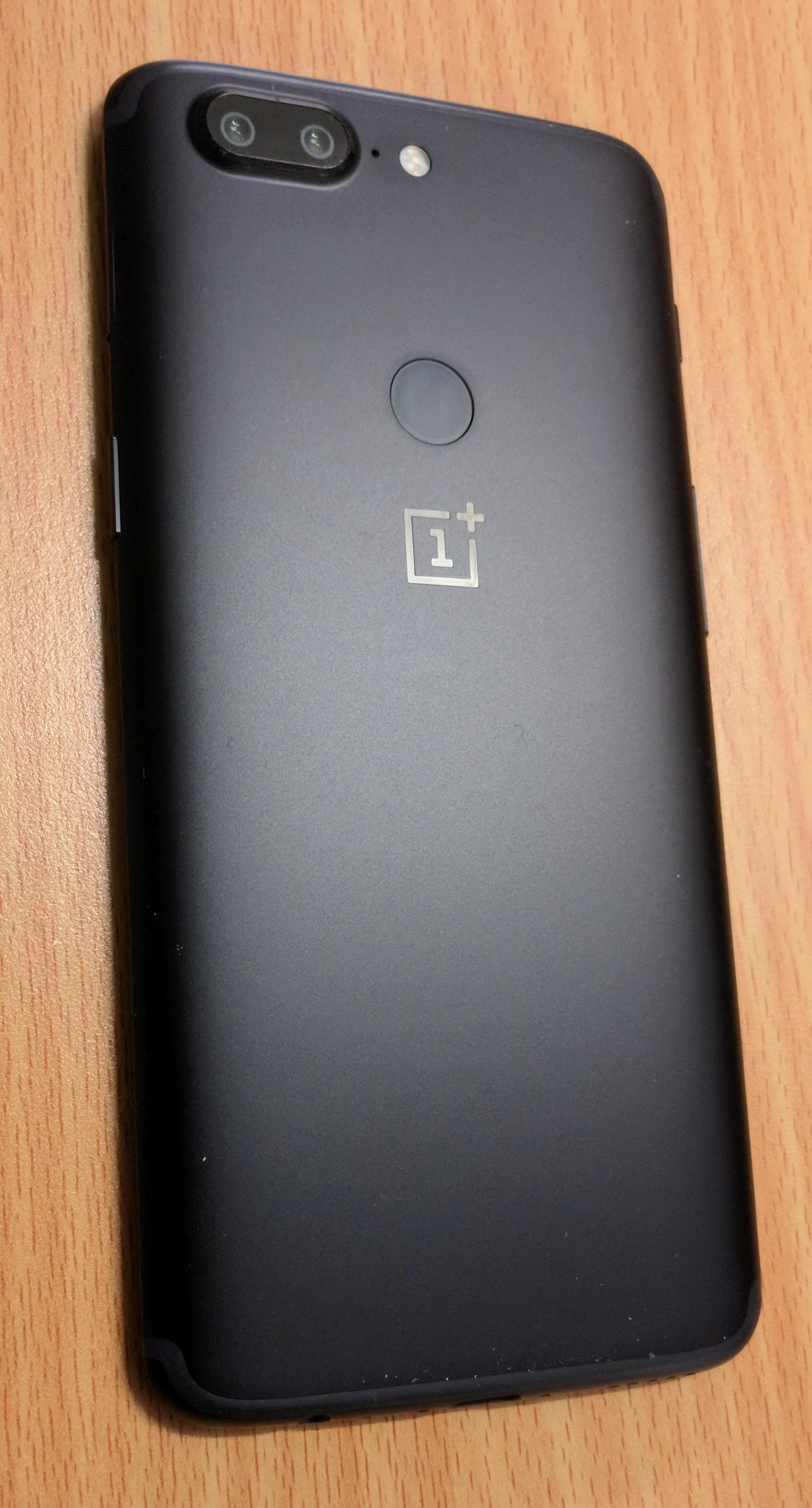 OnePlus 5T back panel - dual camera, flash and fingerprint reader visible on the back, with power button on the left side.